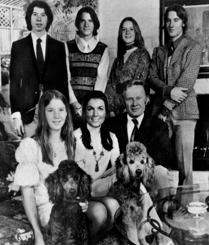 Family photo of the Louds, who were the subject of a 12 part television documentary, "An American Family", that aired on PBS stations in 1973. During the course of the documentary, son Lance announced he was gay, making him the first person on television to do so. The Loud parents' relationship ended during the filming of the documentary, with Pat asking Bill for a divorce and to leave the family home. The documentary was an example of early reality television. Back, from left:Kevin, Grant, Delilah and Lance. Front, from left:Michele, Pat and Bill.